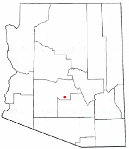 Locator map of the City of Chandler — part of the Greater Phoenix region, in Maricopa County, Arizona. This locator map image could be re-created using vector graphics as an SVG file. This has several advantages; see Commons:Media for cleanup for more information. If an SVG form of this image is available, please upload it and afterwards replace this template with vector version available|new image name . It is recommended to name the SVG file "AZMap-doton-Chandler.svg" - then the template Vector version available (or Vva) does not need the new image name parameter.